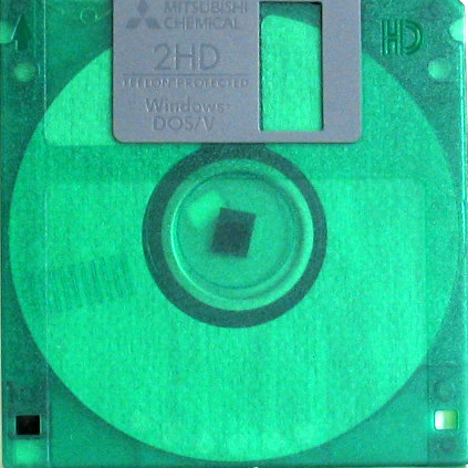 Floppy disk: Submission to Squared Circle Group